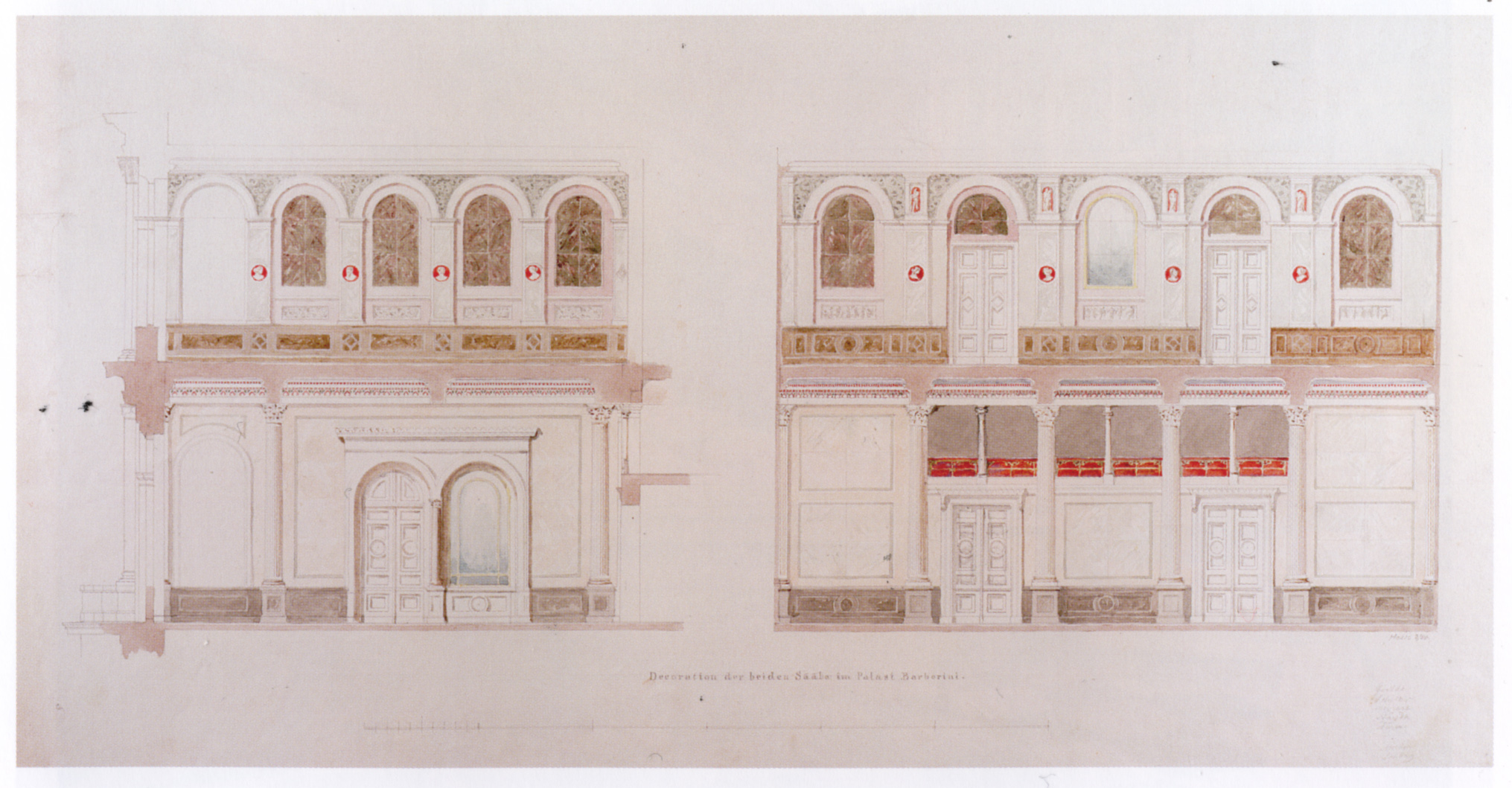 Potsdam, Palast Barberini, decoration of the two halls, drawing by Ludwig Ferdinand Hesse, 1850